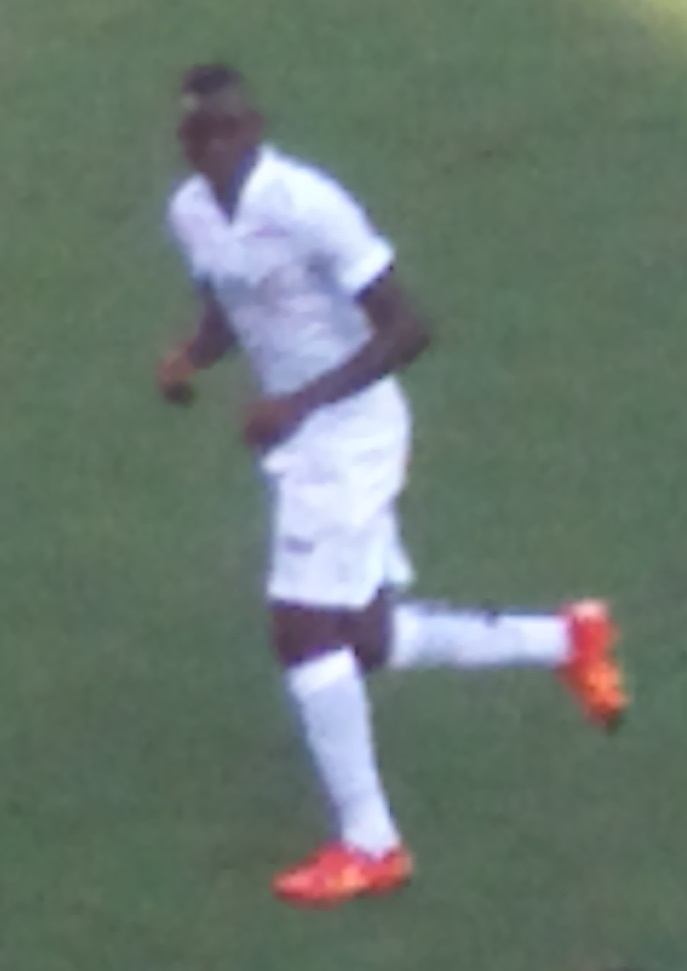 Joel playing for Santos against São Bernardo on 30 January 2016, at the Vila Belmiro.